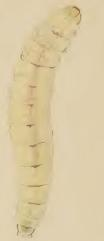 Stainton’s Natural History of the Tineina (1855–1873): Euspilapteryx auroguttella